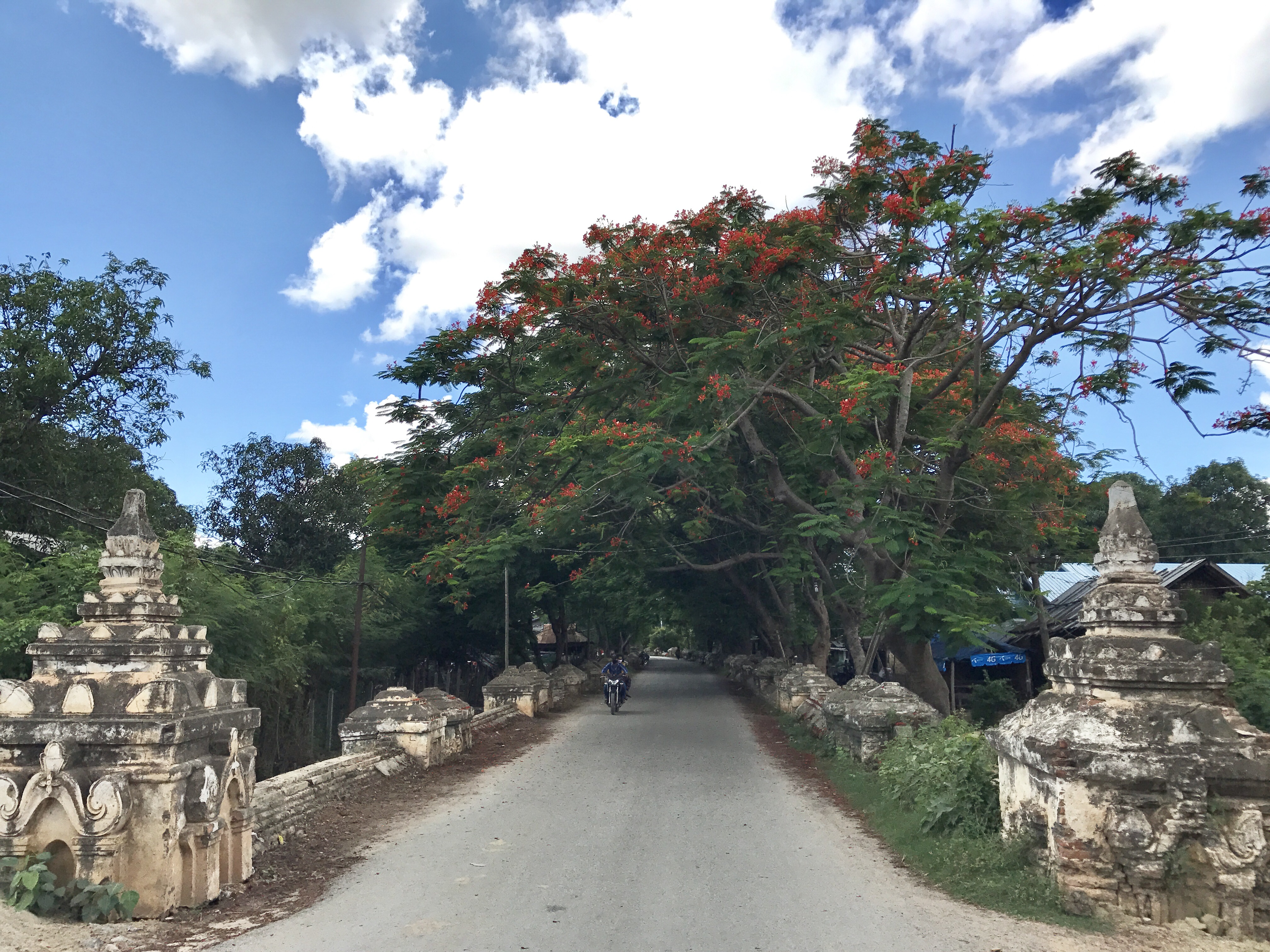 Innwa